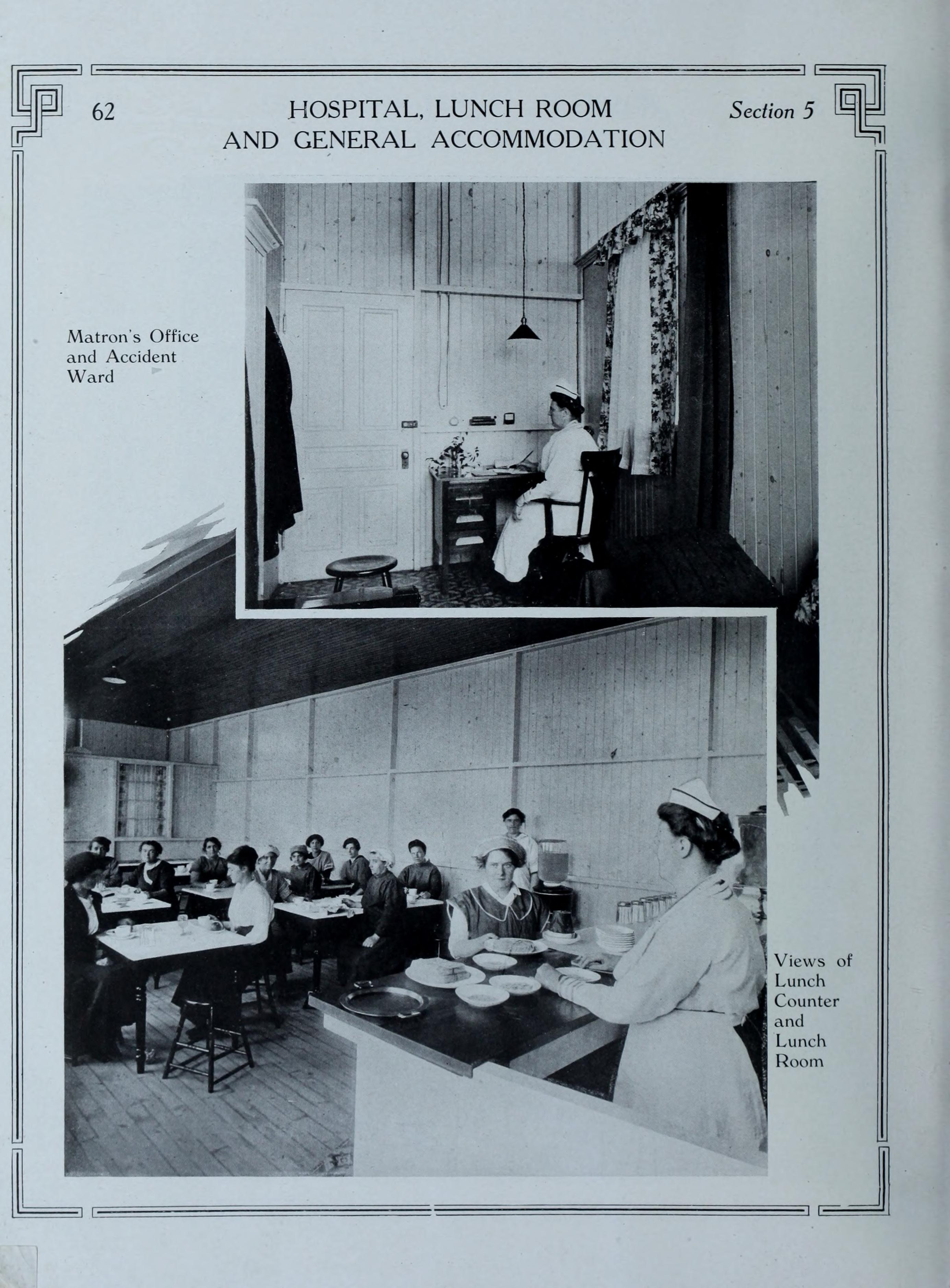 Title: Women in the production of munitions in Canada Year: 1916 (1910s) Authors: Imperial Munitions Board, Canada Subjects: Women in war Women Publisher: (Ottawa) Imperial Munitions Board Text Appearing Before Image: u D G P 62 HOSPITAL, LUNCH ROOMAND GENERAL ACCOMMODATION Section 5 ^ ^ Matrons Officeand AccidentWard Text Appearing After Image: Views of Lunch Counter and Lunch Room D G D G 3 H 64 a